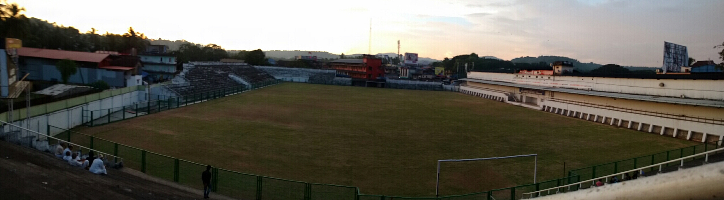 Kottapadi Stadium at Down Hill Malappuram